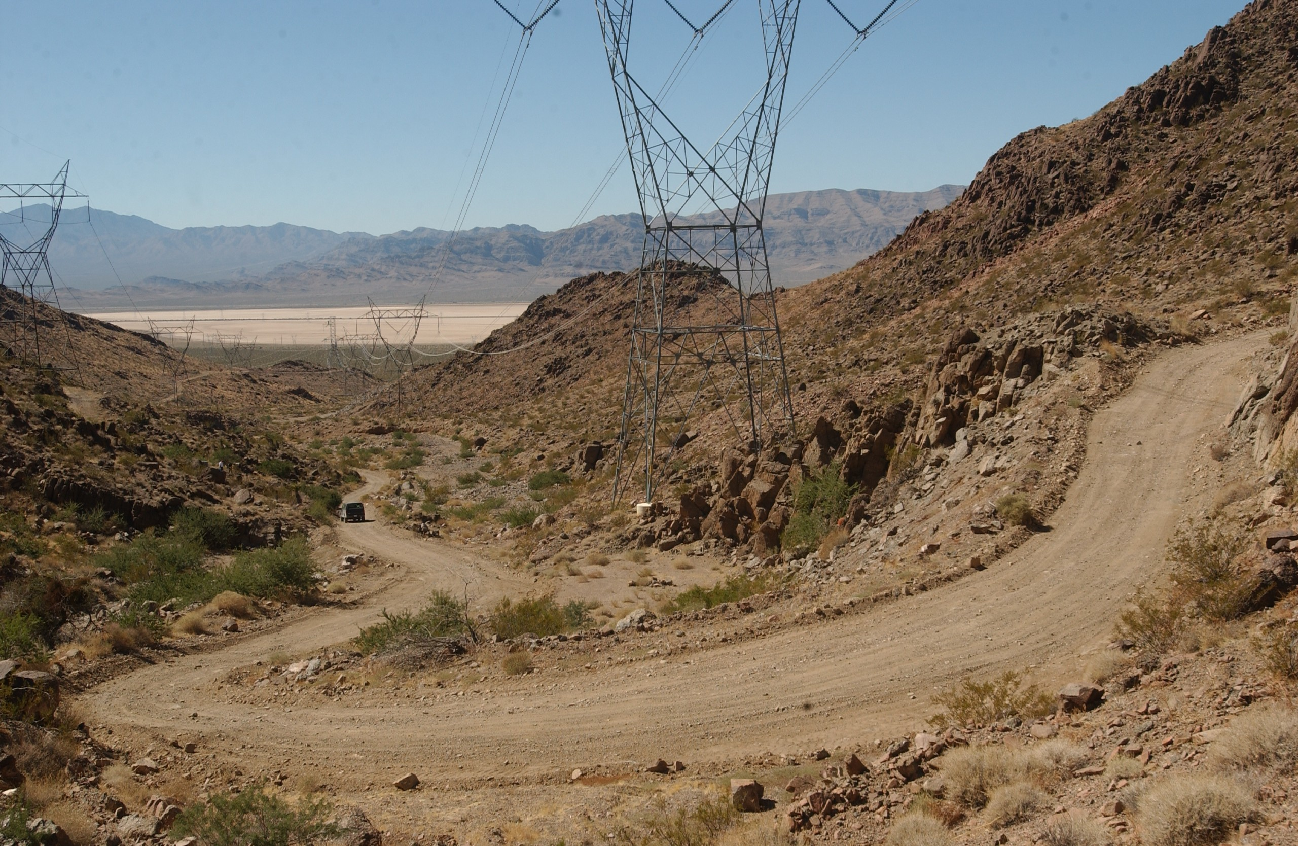 Beer Bottle Pass, approximately seven miles from the finish line, featured over 20 twists and turns.